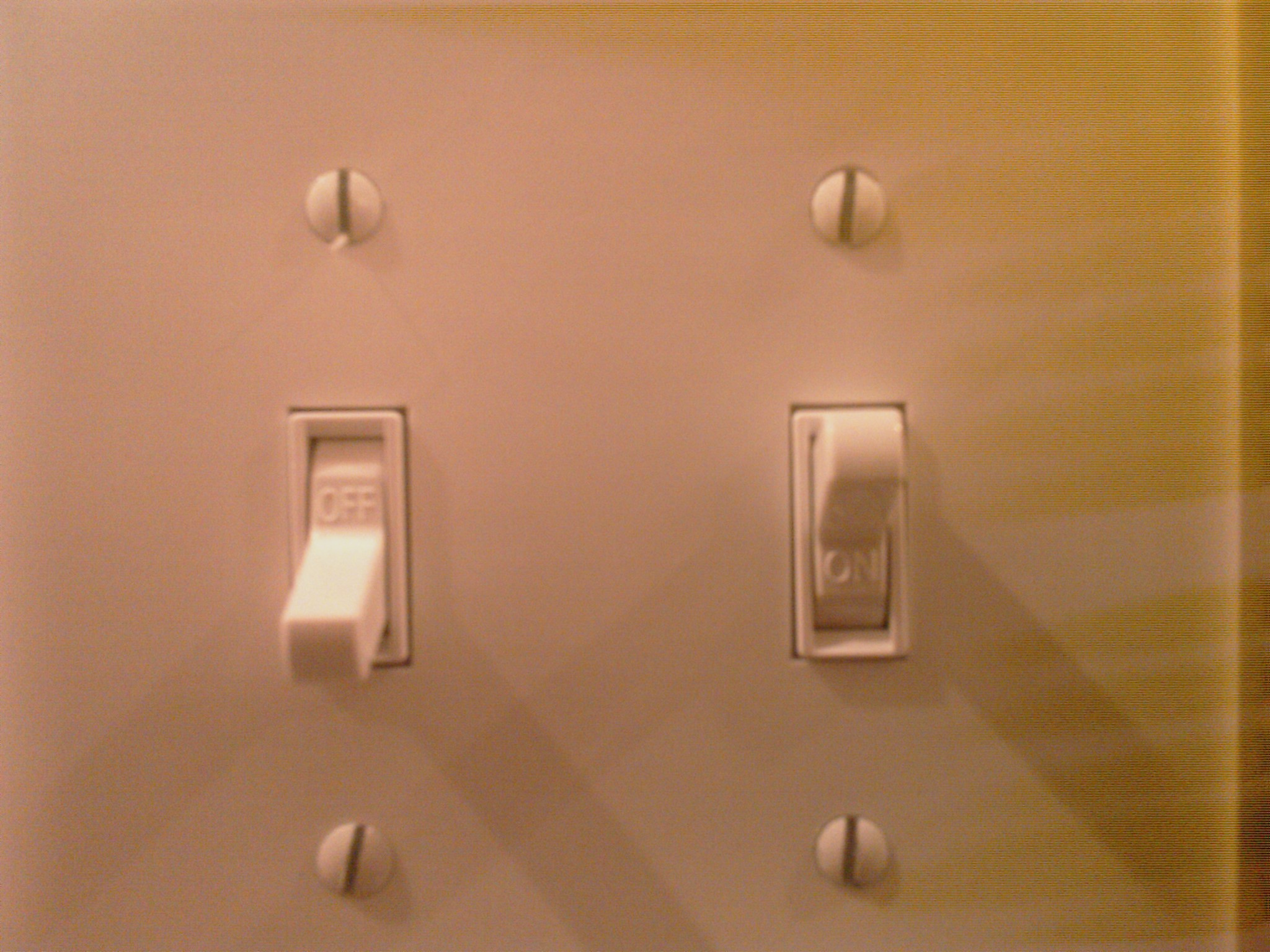 This is a picture of a light switch. displaying on, and off switches.